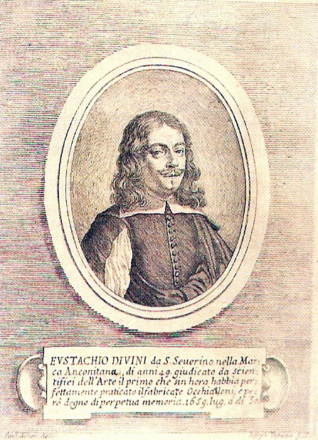 Portrait of Eustachio Divini (1610-1685), italian optician and astronomer